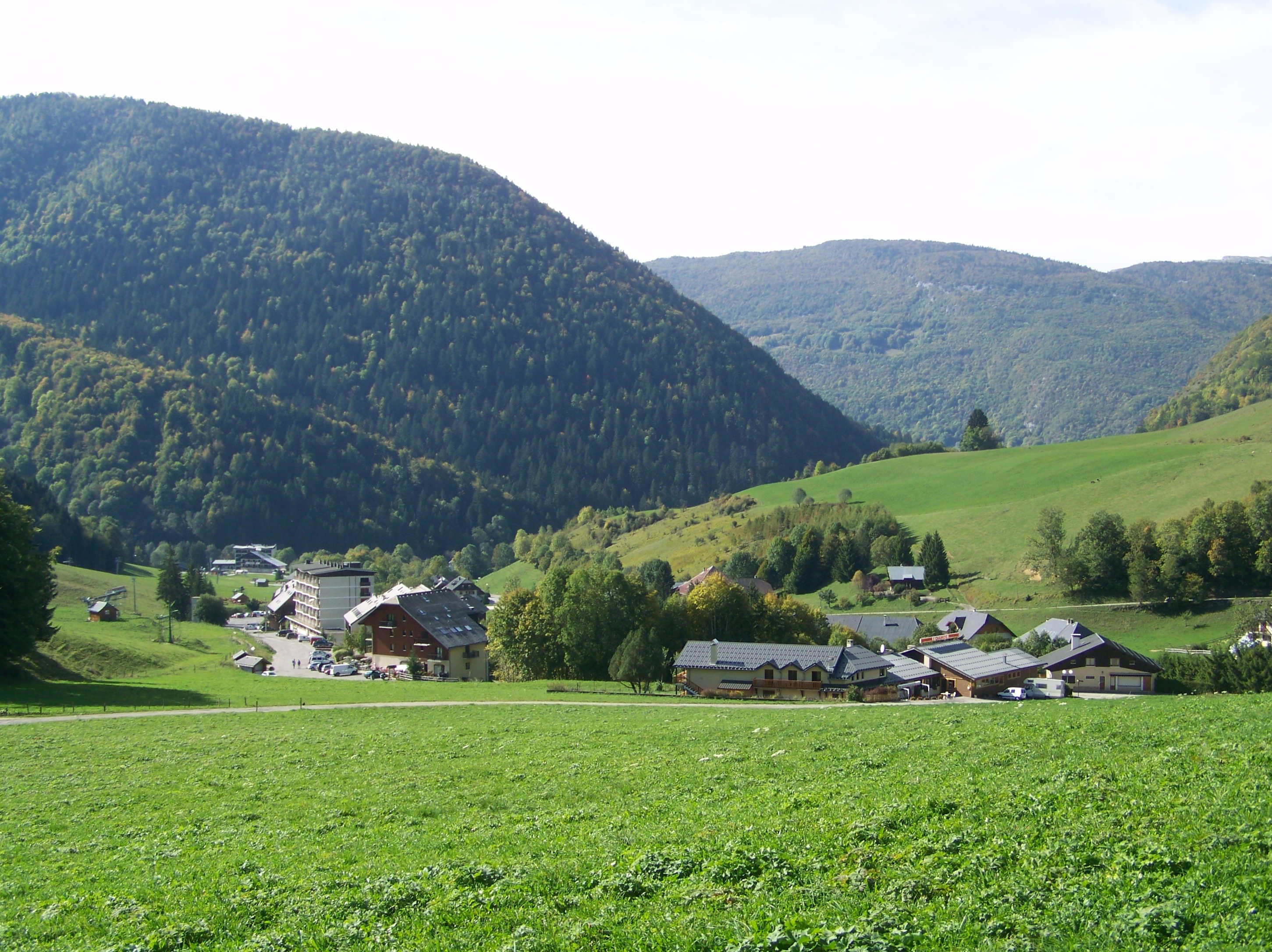 Sight of Aillon-le-Jeune Station (Aillon-le-Jeune ski resort), in Savoie, France.